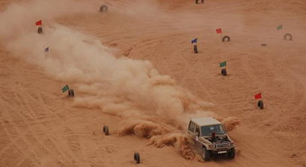 An event taking place in Al Ghadha Desert Festival, Unaizah